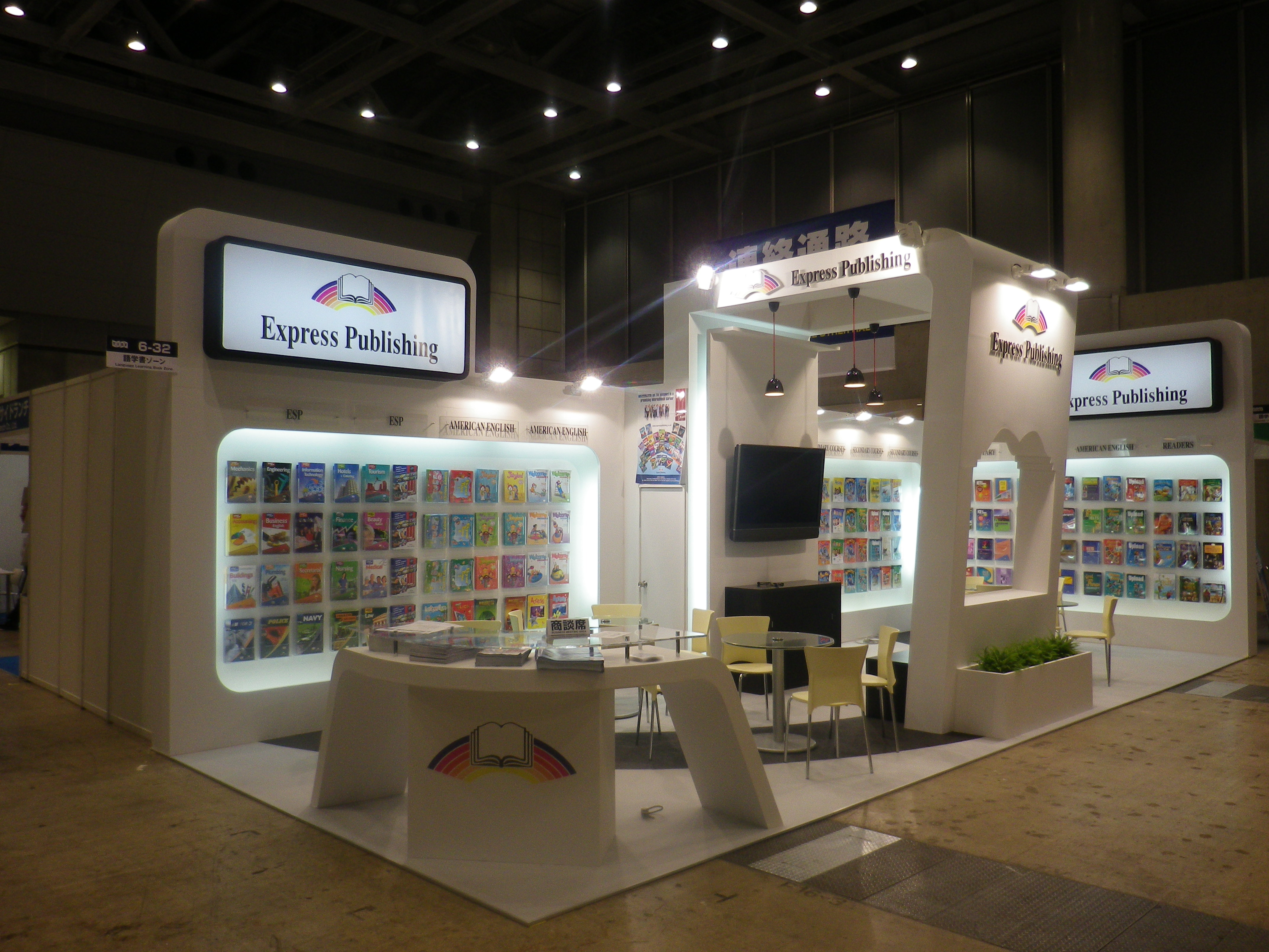 Express Publishing stand at the Tokyo Book Fair 2012.